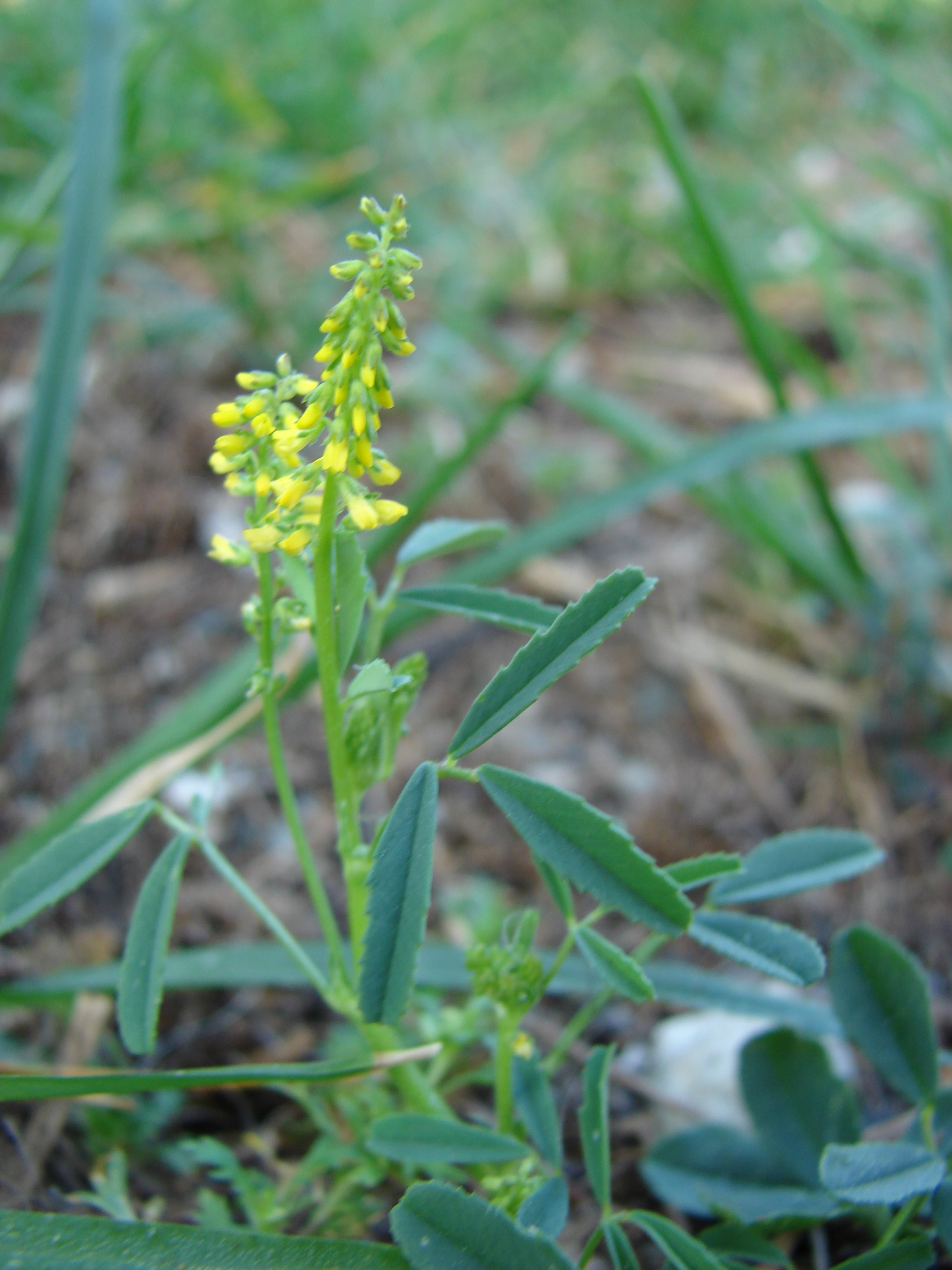 Melilotus indica (flower and leaves). Location: Midway Atoll, Halsey Dr residences Sand Island